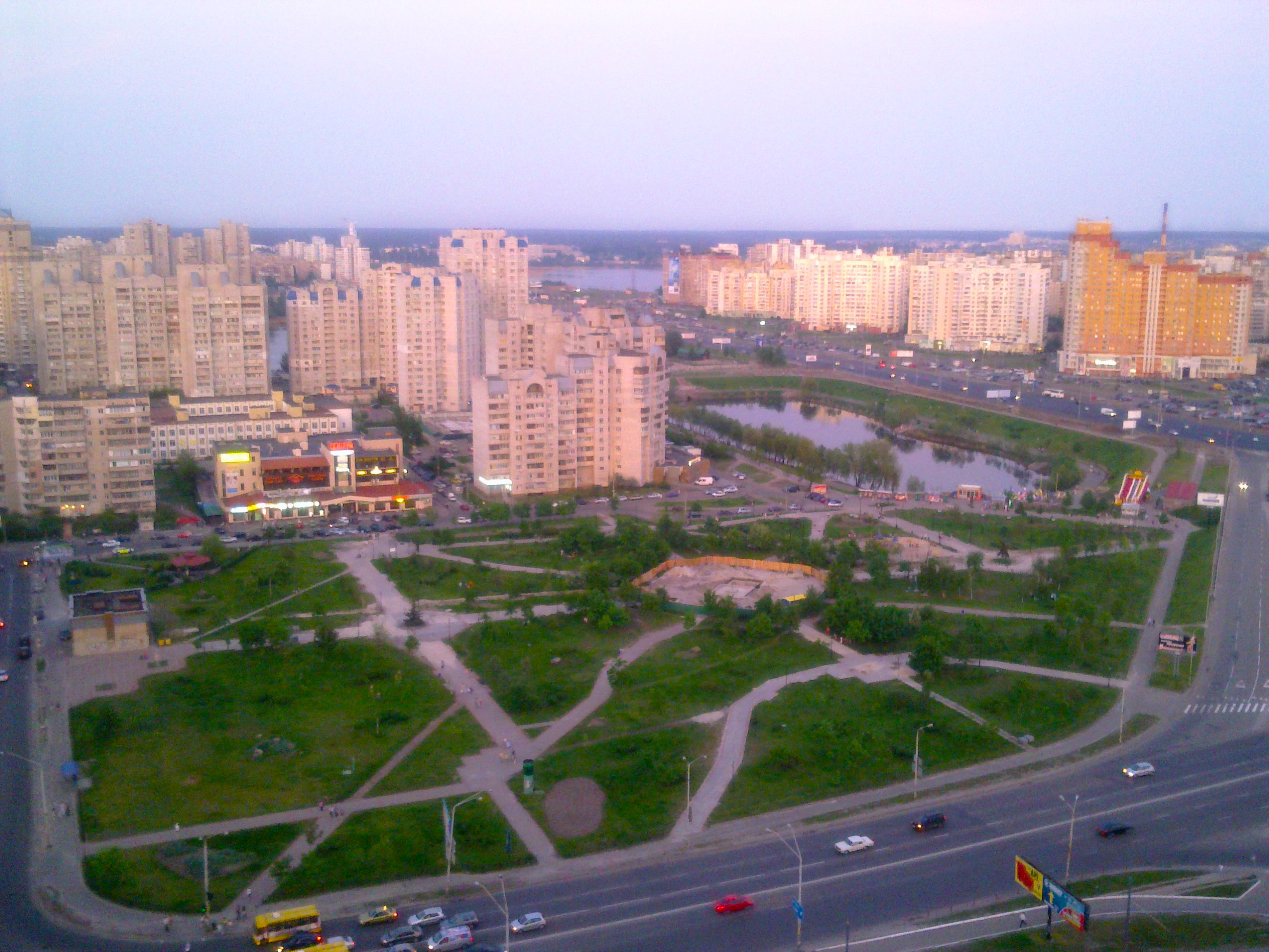 Pozniaky park in Kiev